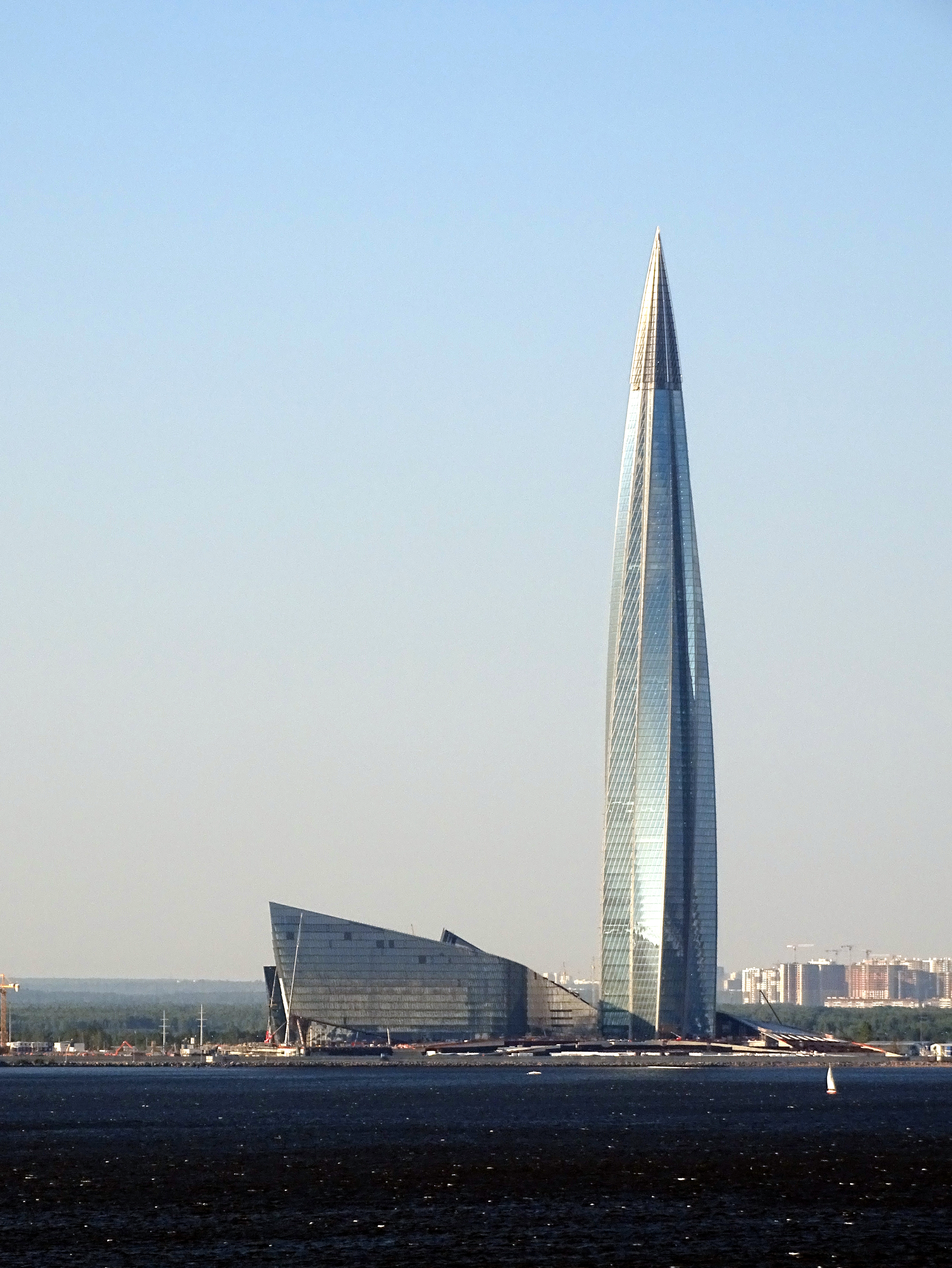 The Lakhta Center, an 87-story skyscraper in Saint Petersburg, Russia.